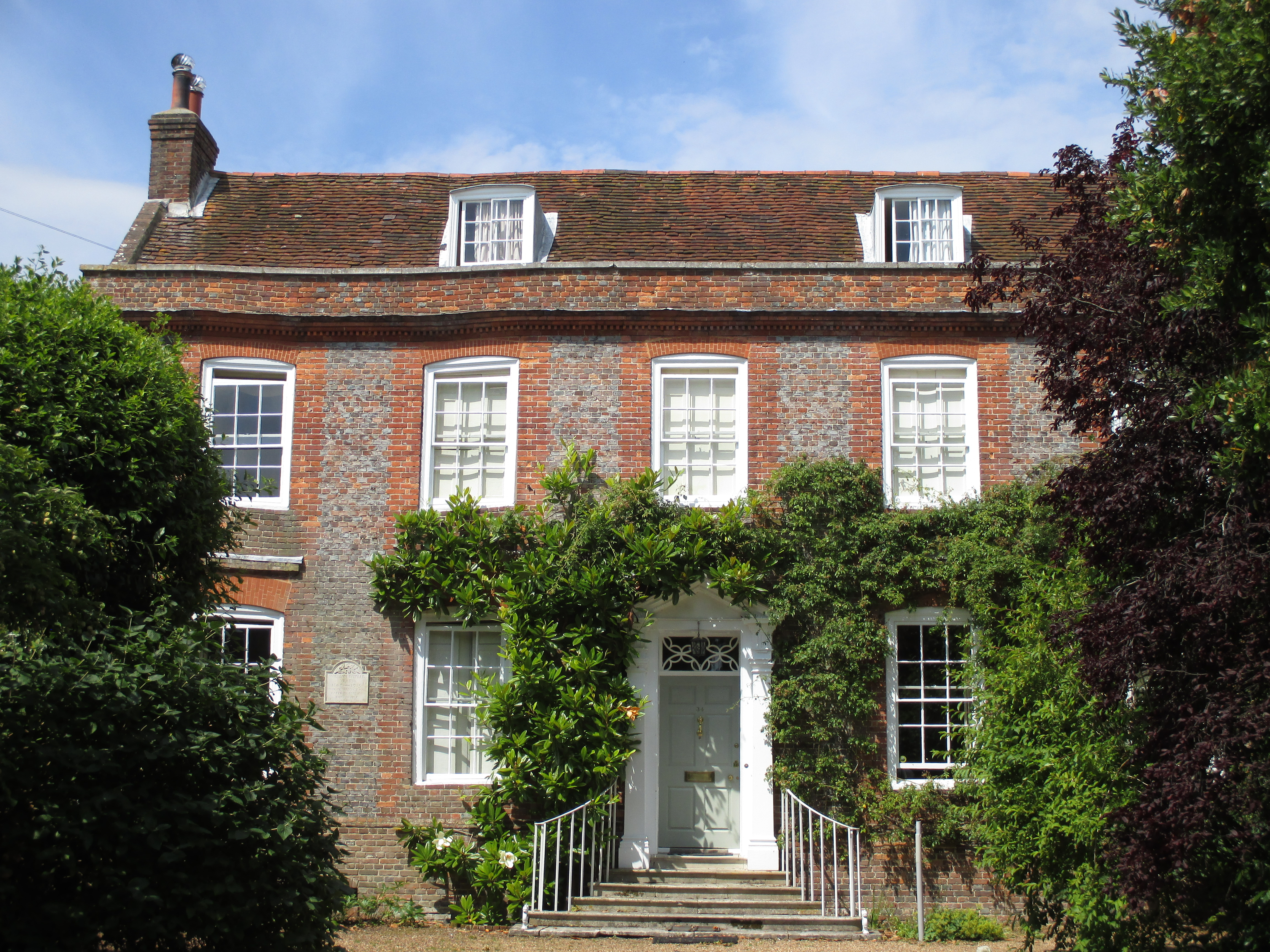 Chantry House, 34 Church Street, Steyning, West Sussex. The plaque on the left states that "William Butler Yeats, 1859-1939, wrote many of his later poems in this house".